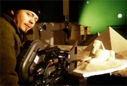 author: Thomas Frick